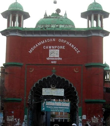 Kanpur